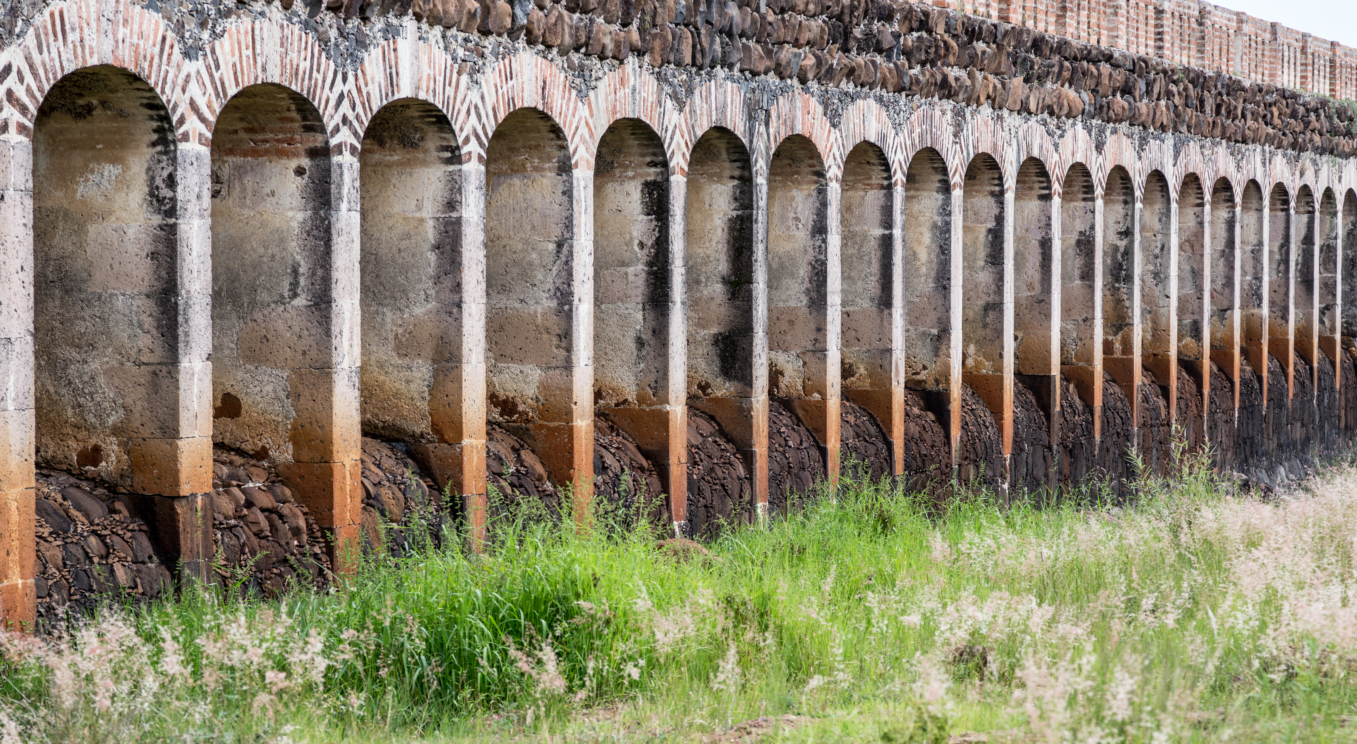 Dam at Jalpa de Canovas. Luis Long, a british arquitect who lived and contributed greatly to important public works in Mexico in the Porfirio Diaz era, intervened in the architecture of this dam. This is a photographic example of rythm.